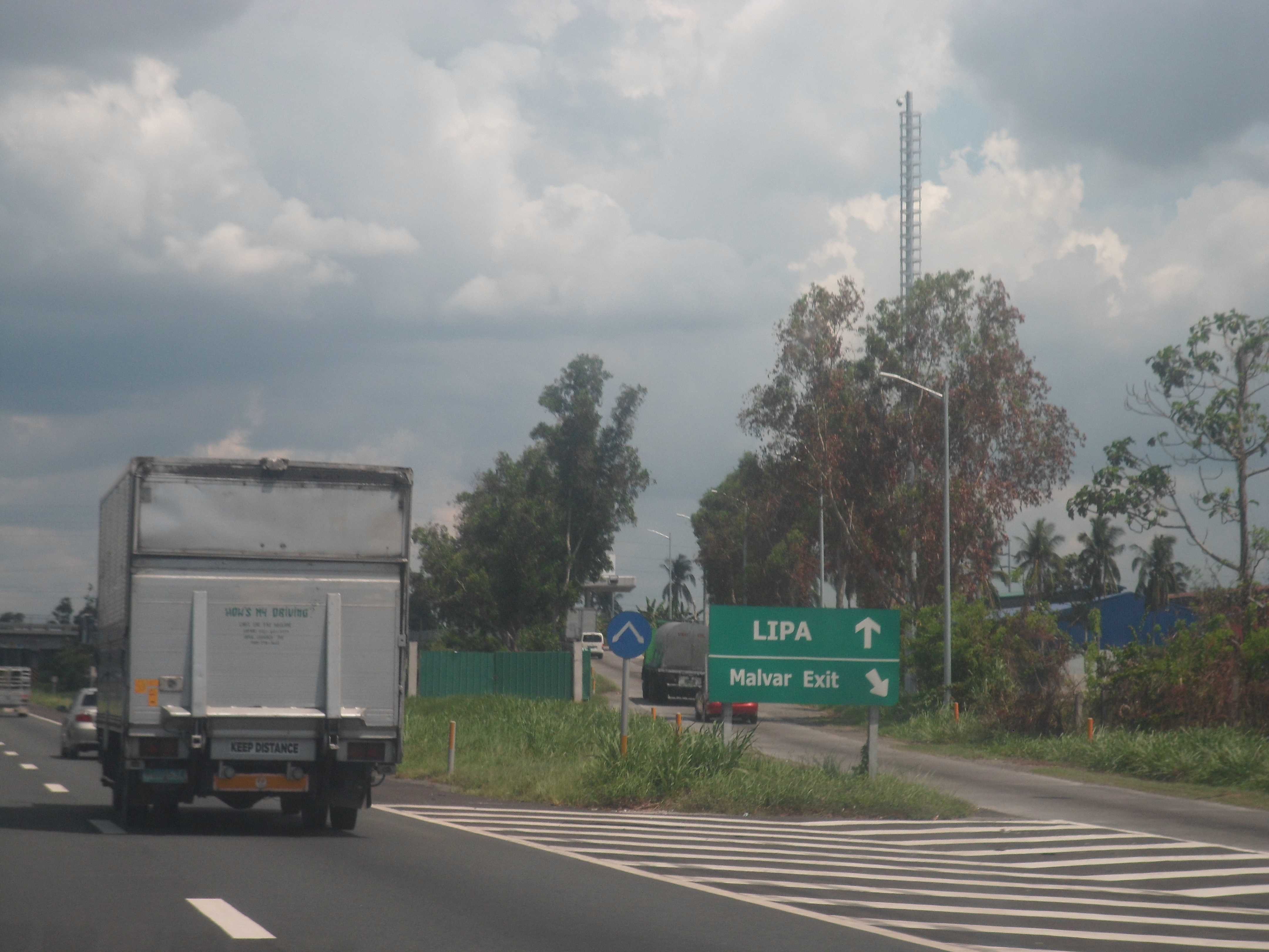 STAR Tollway Malvar Exit sign.